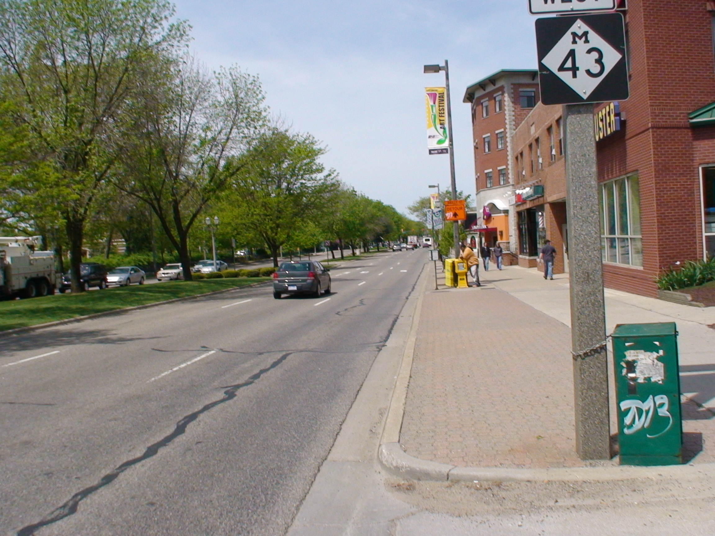 @ the intersection of Grand River & Collingwood